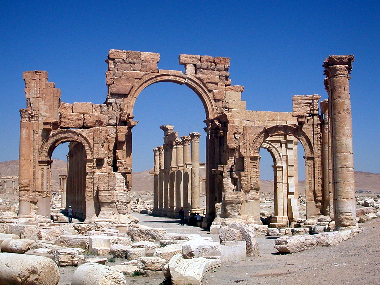 Hadrian Gate of Ancient Palmyra